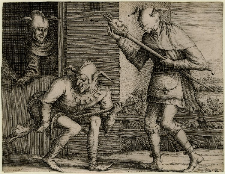 Pieter Bruegel the Elder (After); Hendrik Hondius I (Print made by); Three Fools of Carnival; three fools playing with their fool's baubles. 1642